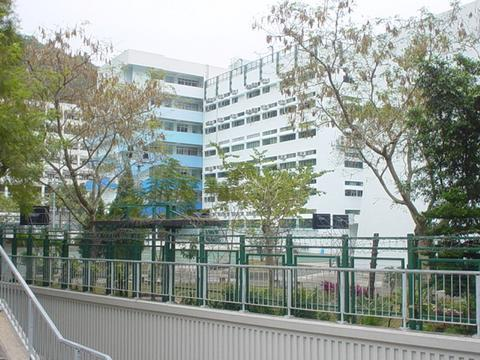 Tseung Kwan O Secondary School